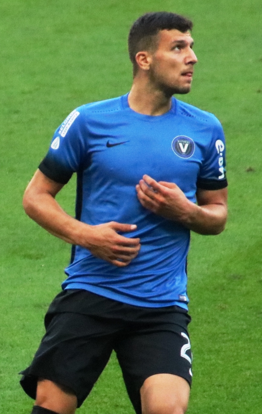 Euroleague play off 2nd leg